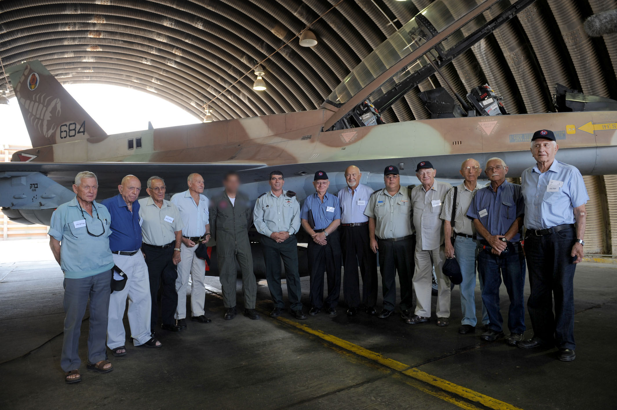 September 28, 2010. Eleven veteran Major and Brigadier Generals who stood at the head of Regional Commands, Branches, Corps and IDF Units from the very establishment of the State of Israel, visited the Hatzor Air Force Base this day (Wednesday). The purpose of the visit was to acknowledge and extend gratitude on behalf of the IDF, to these founding commanders for their considerable contribution in the building and protection of the nation and its inhabitants, as well as to update them on the IDF today, on the threats and the challenges facing the force as well as its preparedness and readiness. The Chief of the General Staff, Lt. Gen. Gabi Ashkenazi, took part in the visit and lauded the generals, saying: “We received the State from you to keep and defend, and I hope that you are confident you have handed your achievement to worthy successors. We continue your heritage.” For more details: dover.idf.il/IDF/English/News/today/10/09/2801.htm The Israel Defense Forces Facebook • blog • Twitter